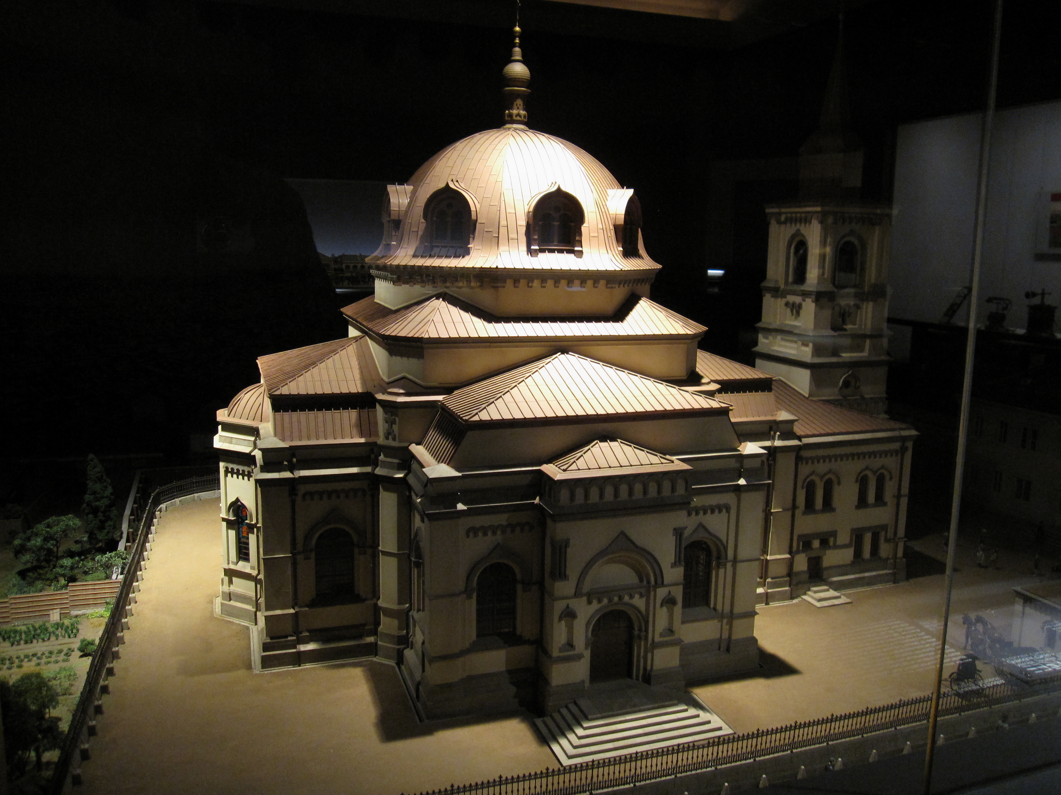 1/25 architectural model of Tokyo Resurrection Cathedral, also known as Nikolai Church, at it appeared in the 1880-90's. Located in the Edo-Tokyo Museum.